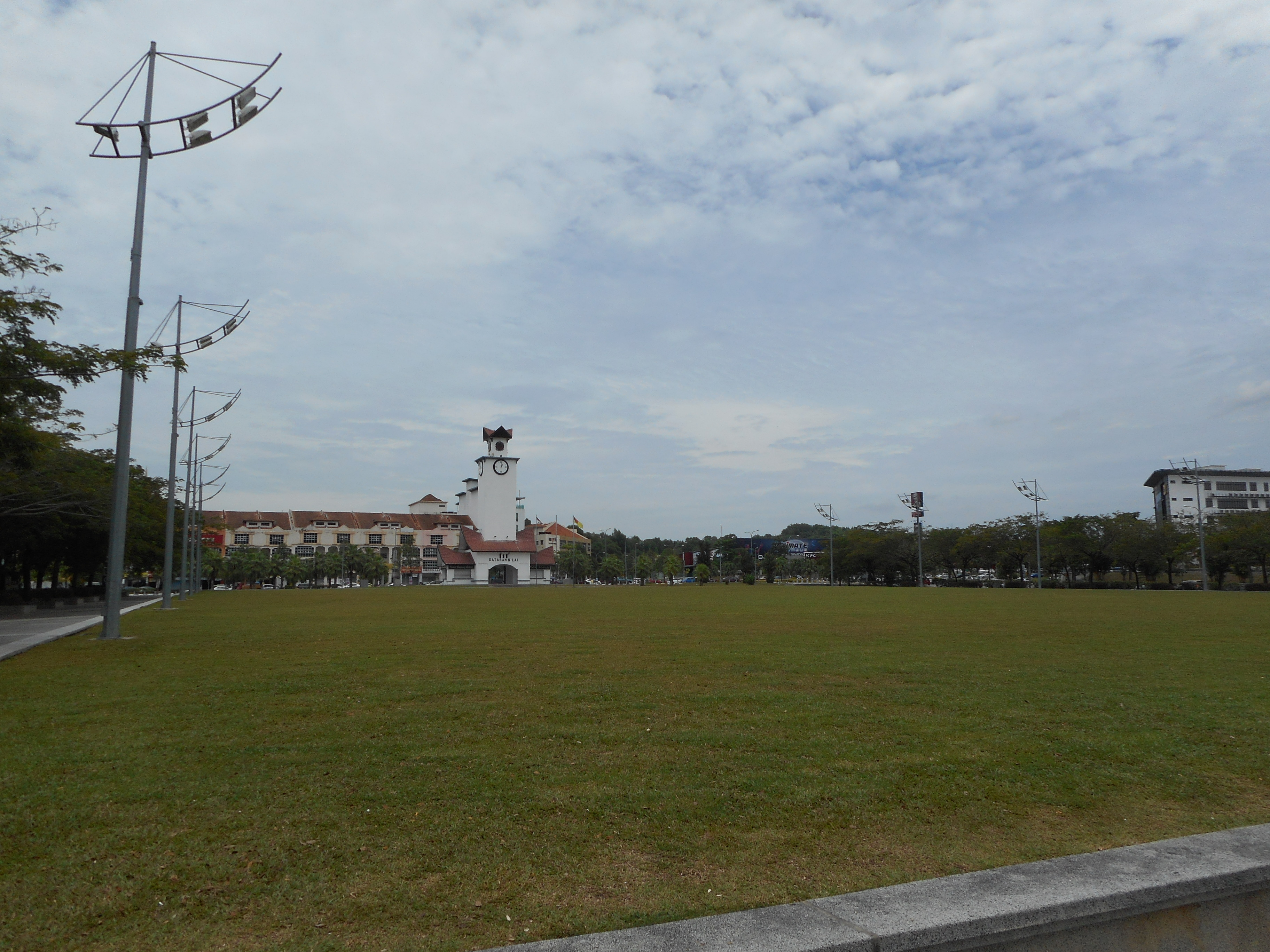 Nilai Square, Nilai, Seremban, Negeri Sembilan, Malaysia